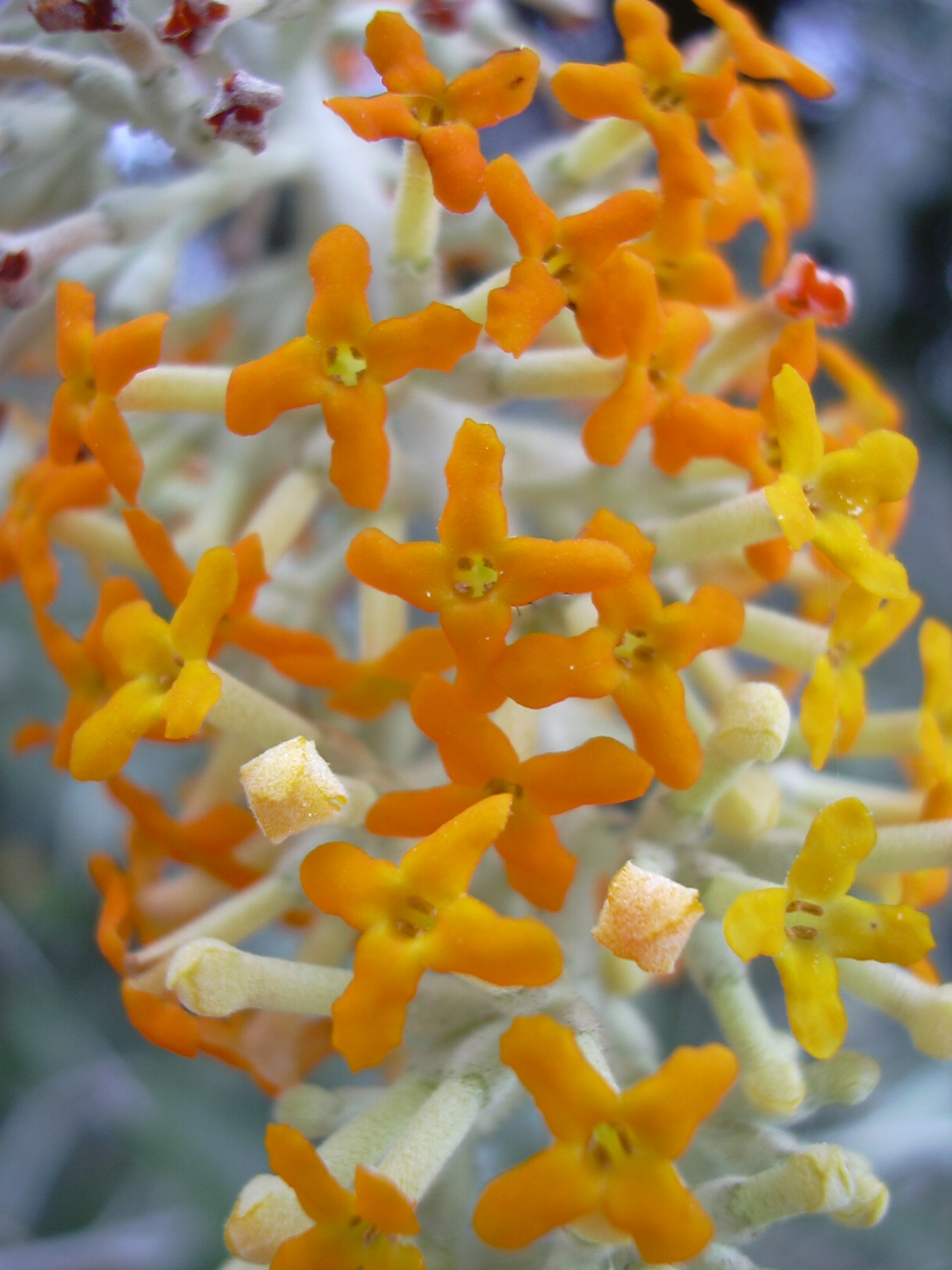 Buddleja madagascariensis (flowers). Location: Maui, Kula